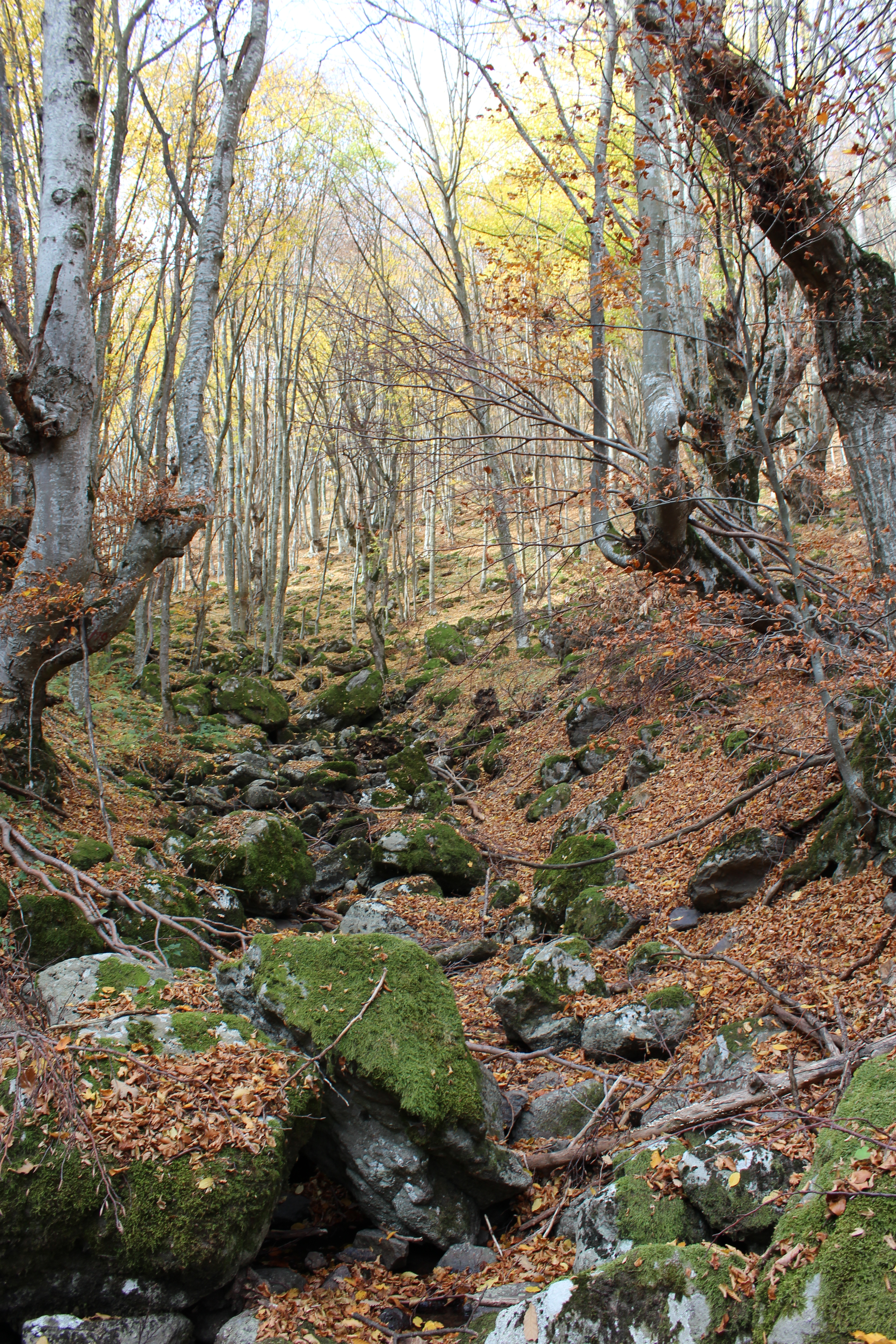 Borinska river bed. Srpski (latinica): Korito Borinske reke uzvodno od crkve Ognjena Marija.